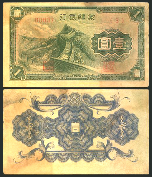 Banknote of Mengjiang, Inner Mongolia, China, 1 yuan, year 29 in the Chinese Republic Calendar (1940).